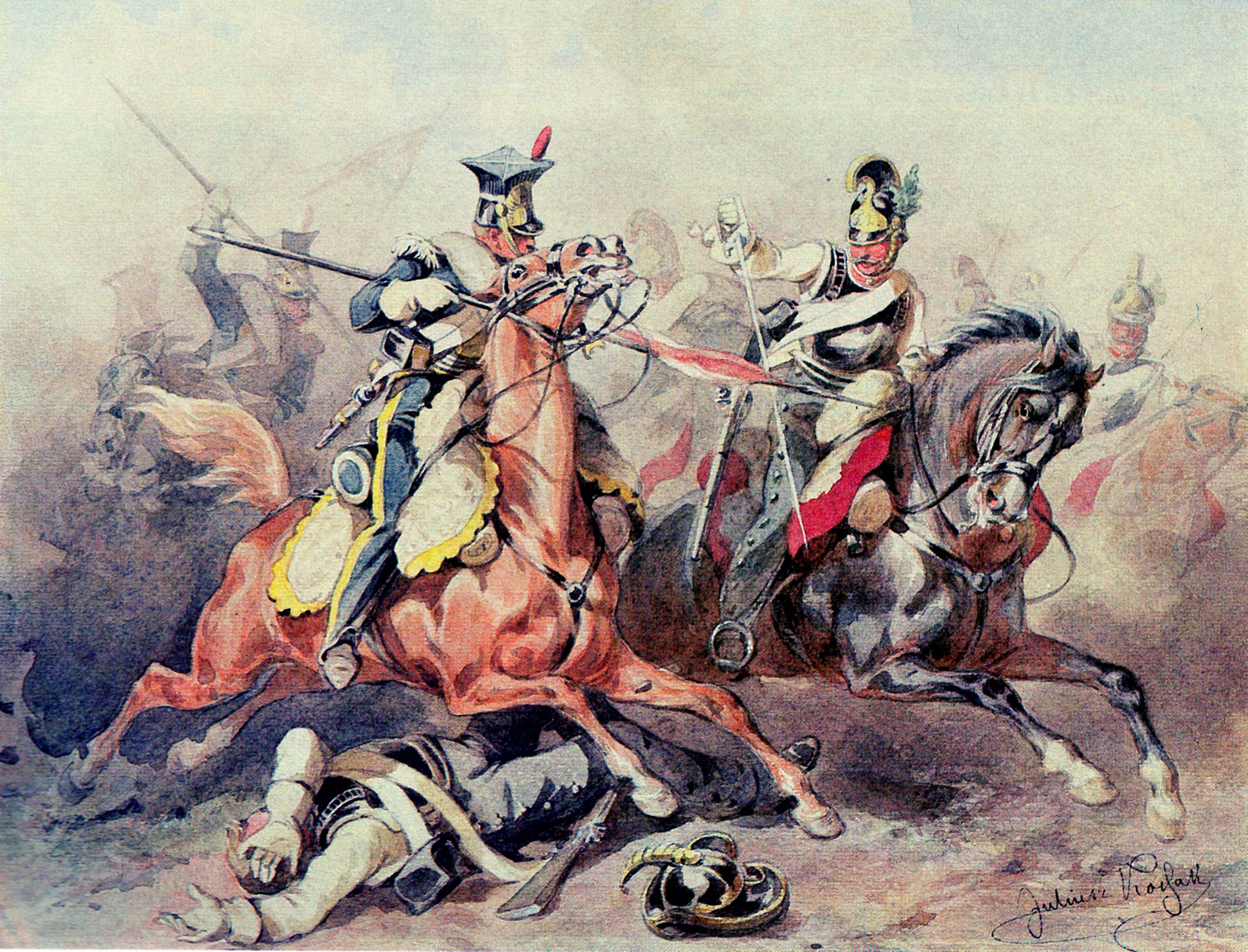 Polish Vistula Lancer and Austrian Cuirassier in fight